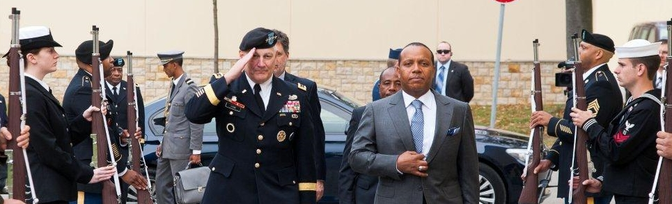 Stuttgart, Germany - Sao Tome and Principe Prime Minister Patrice Emery Trovoada, right, and General Carter F. Ham, commander of U.S. Africa Command, walk through the honor guard cordon marking the prime minister's arrival at command headquarters at Kelley Barracks on Monday, September 24, 2012. The prime minister, the first African head of government to visit AFRICOMs headquarters, spent the day engaging with senior leaders on mutual security cooperation issues.